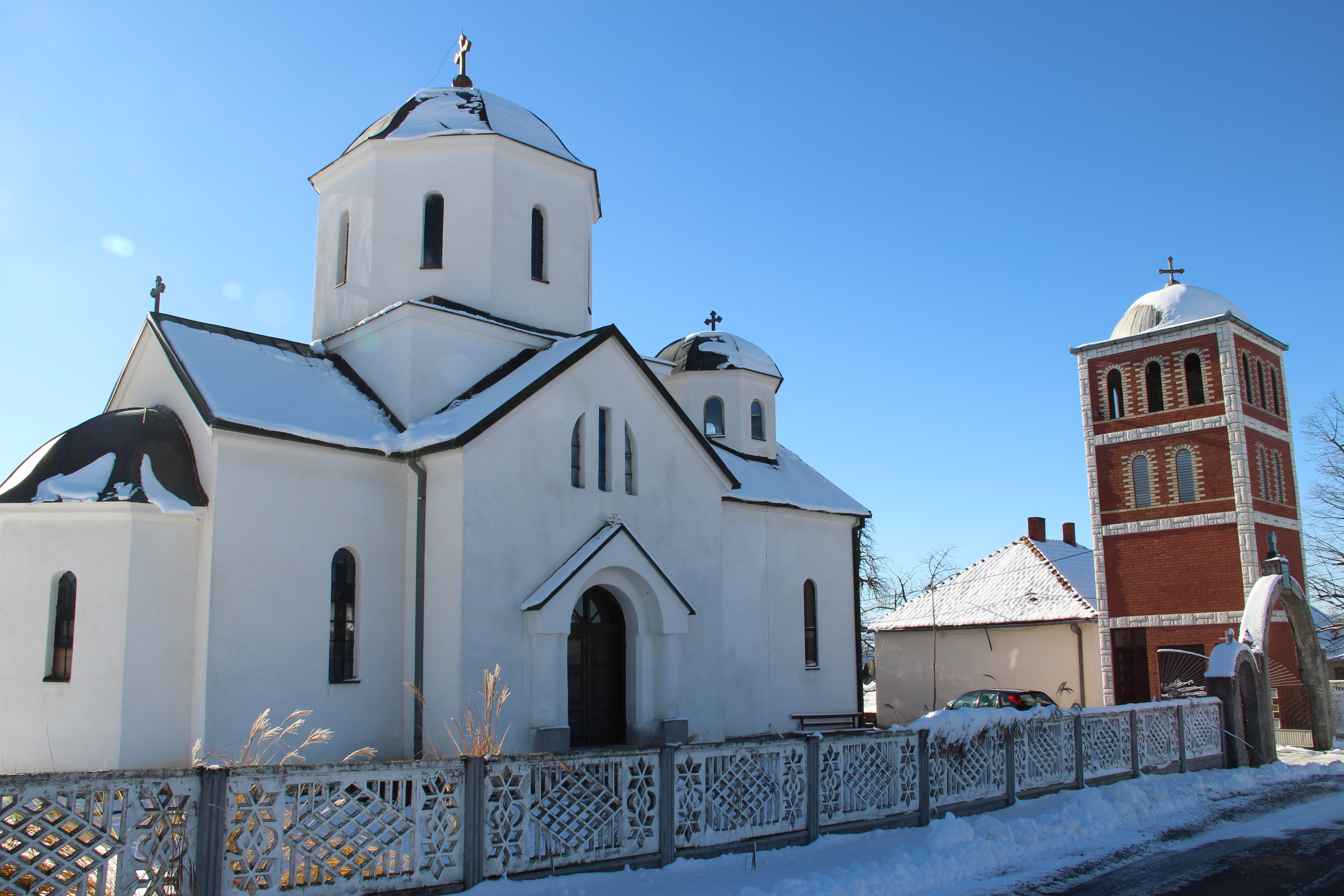 Osladic village - Municipality of Valjevo - Western Serbia - church 2